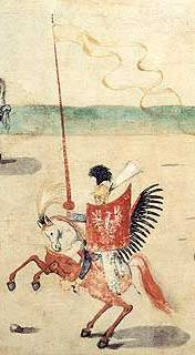 Polish Hussar on a red-painted white horse at the wedding procession of King Sigismund III of Poland and Sweden, as painted anonymously on the Stockholm Roll (c. 1605).